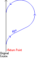 schematically drawing of Williams Turn